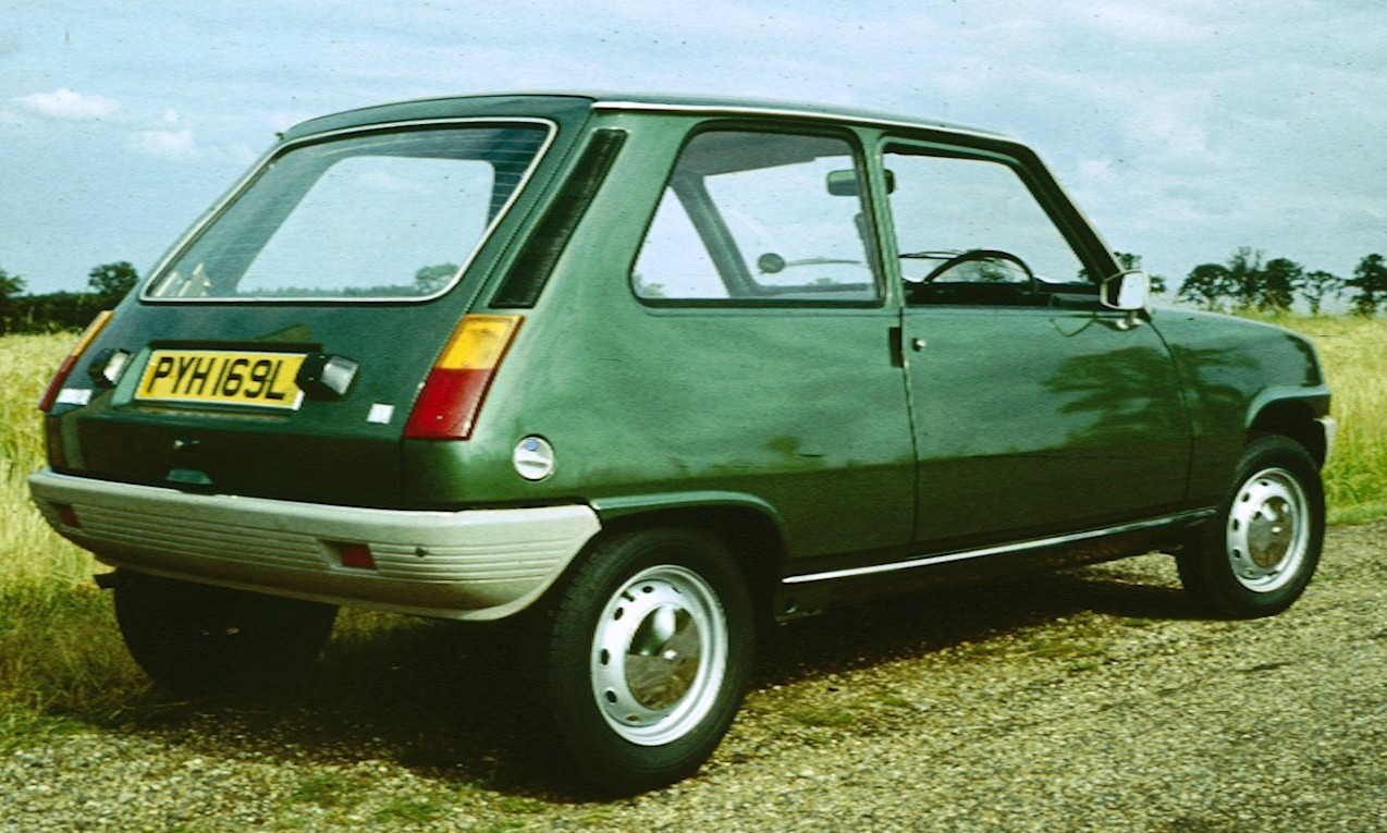 1973 Renault 5 TL early version rear three quarters in England